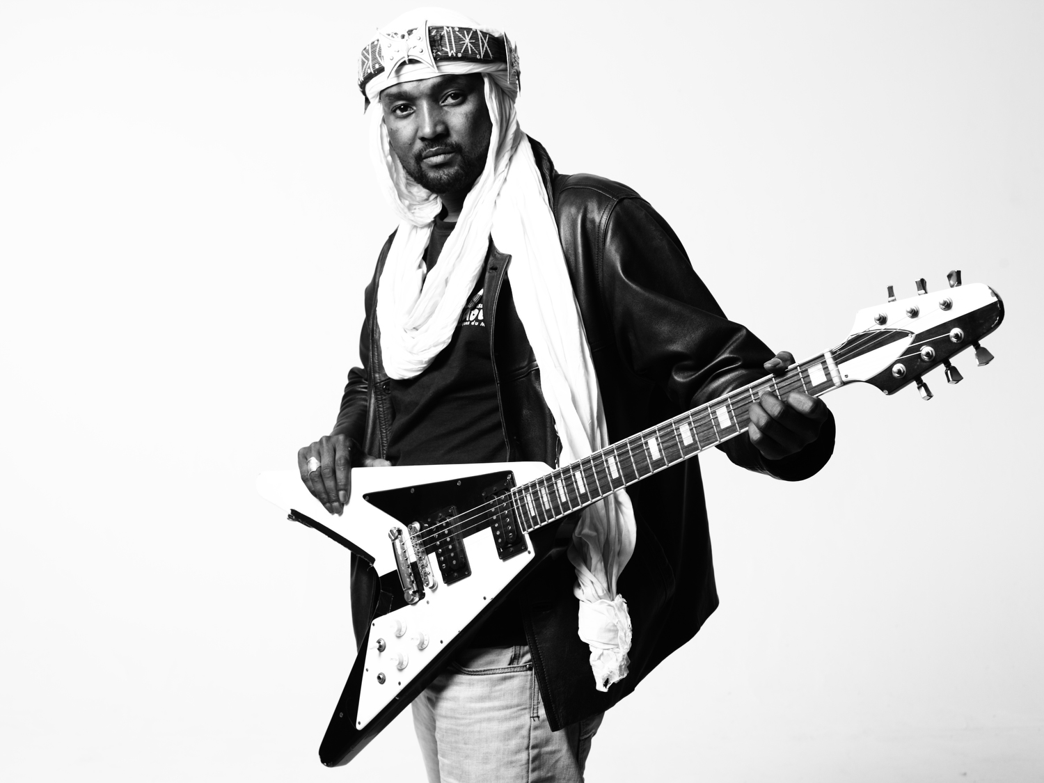 Kel Assouf